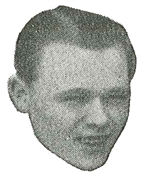 Allan Johansson (1919-1991), Swedish jazz pianist, bandleader and singer.